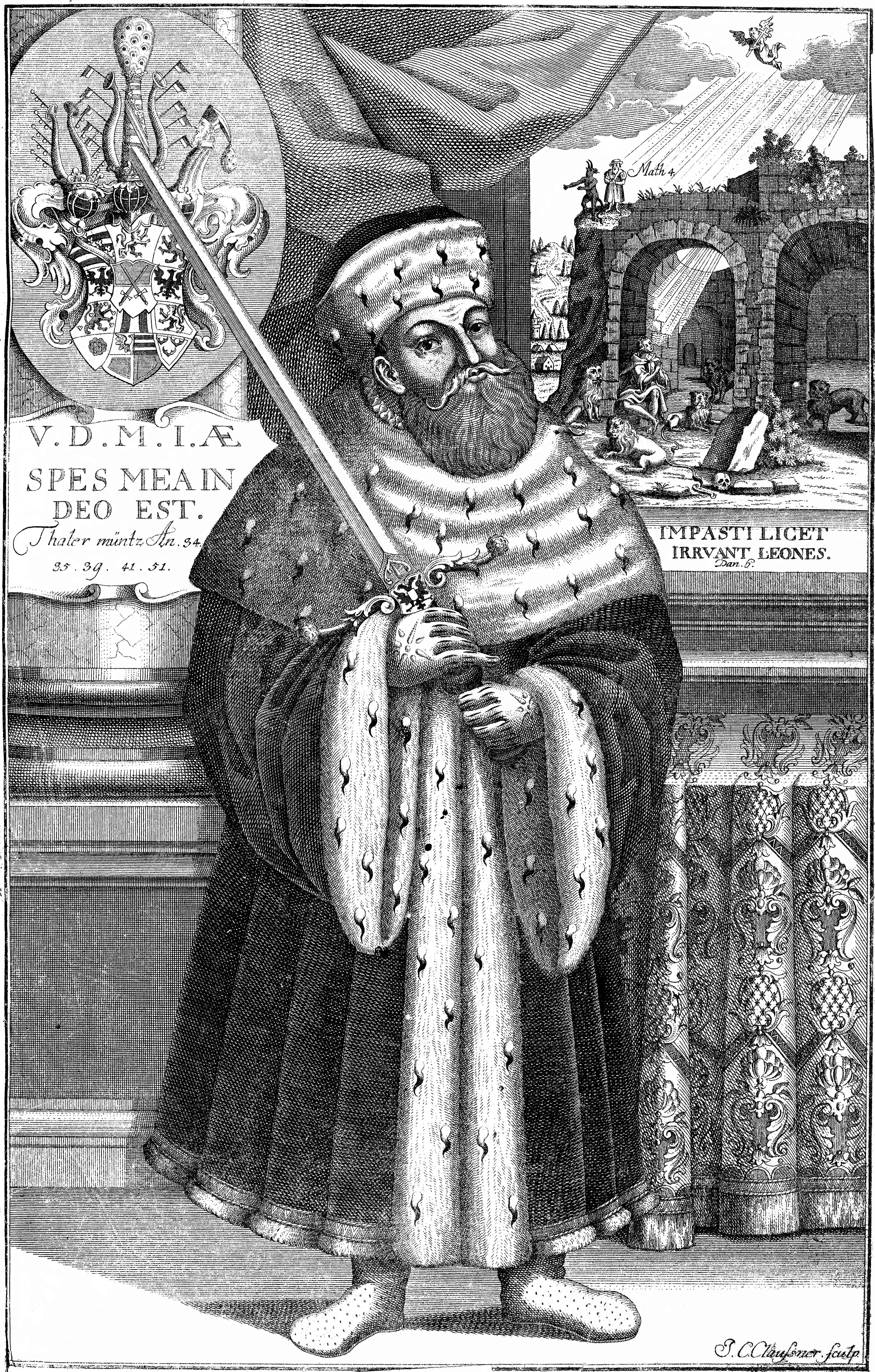 An image of John Frederick I, also known as John the Magnanimous, the Elector of Saxony (r. 1532-1547), Duke of Saxony (r. 1547-1554), and head of the Schmalkaldic League. To the left is John Frederick’s coat of arms; while to the right is an image of Daniel in the lion's den (Matthew 4) and the temptation of Christ. The images of suffering depict the suffering of John Frederick who was deposed as Elector and imprisoned .